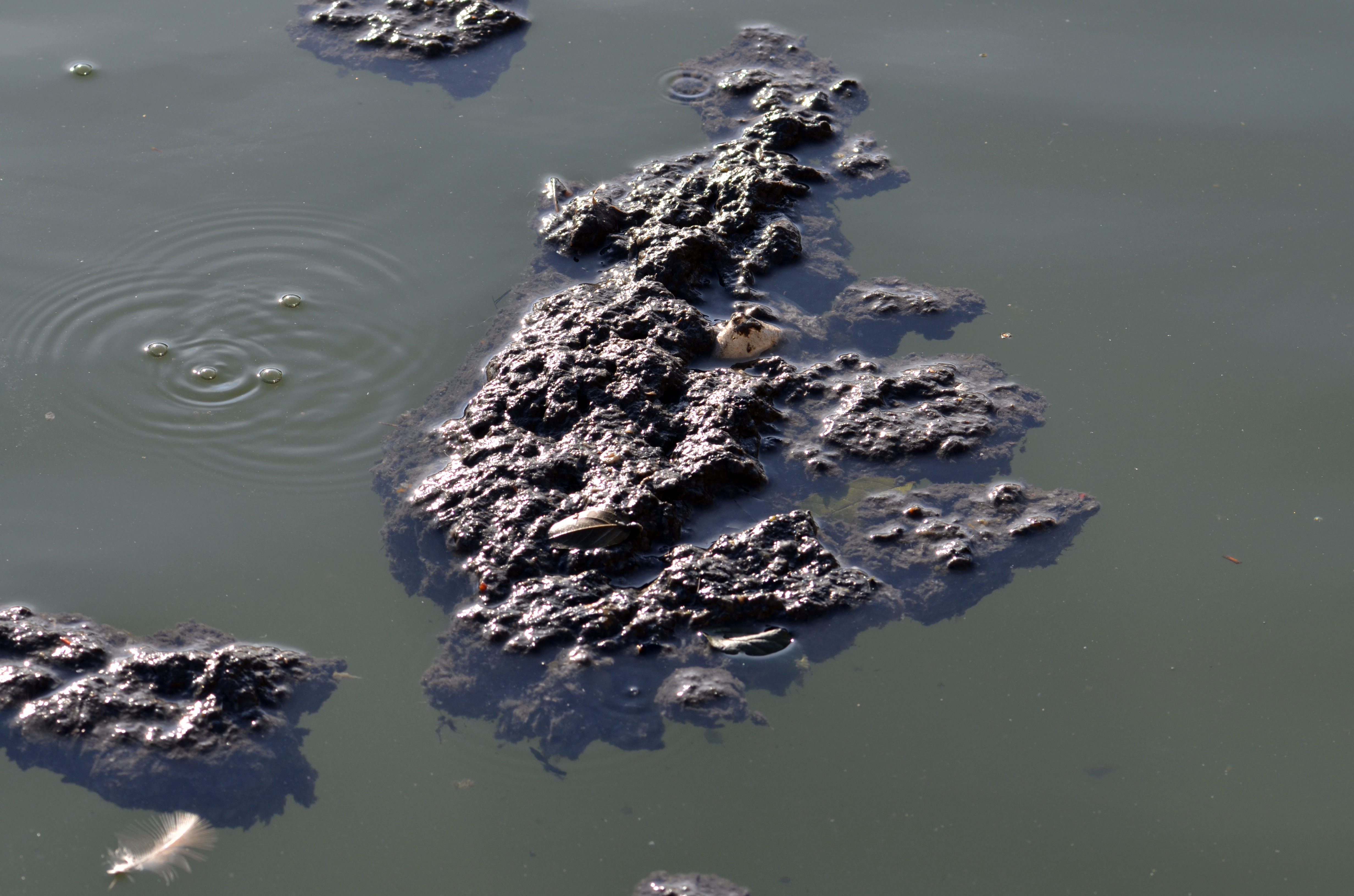 aAbnormals bacterial flocs photographed November 11, 2014 (holiday without traffic of barges on the canal) on the surface of Lower-Deûle river (near Lille, in the north of the France, after the lock of the "Grand-carré") where ther is an enlargement of the canal (Saint-André (left bank). There was also many bubbles of methane (malodour).